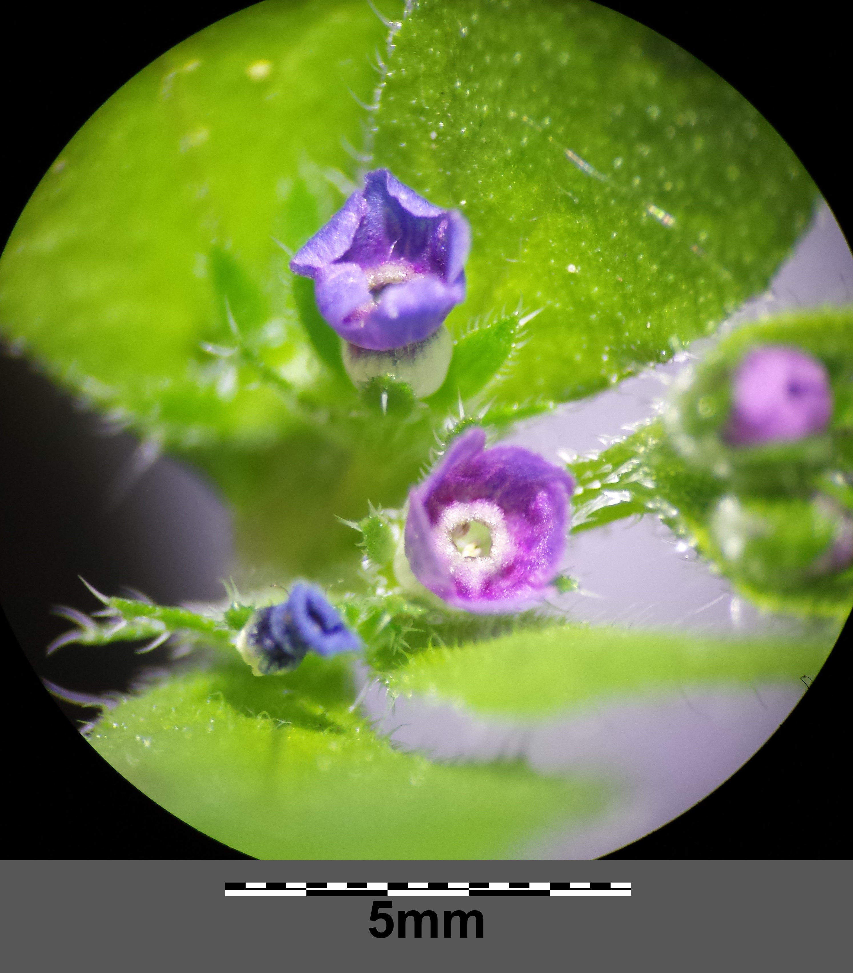 Inflorescence Taxonym: Asperugo procumbens ss Fischer et al. EfÖLS 2008 ISBN 978-3-85474-187-9 Location: Schwaigergasse, Vienna-Floridsdorf - ca. 160 m a.s.l. Habitat: shrubbery